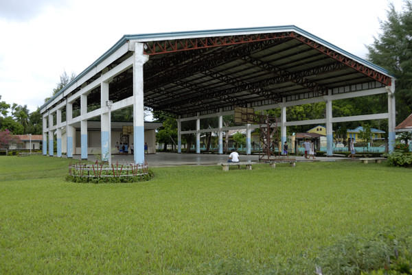 Town Plaza of Ferrol, Romblon, Philippines